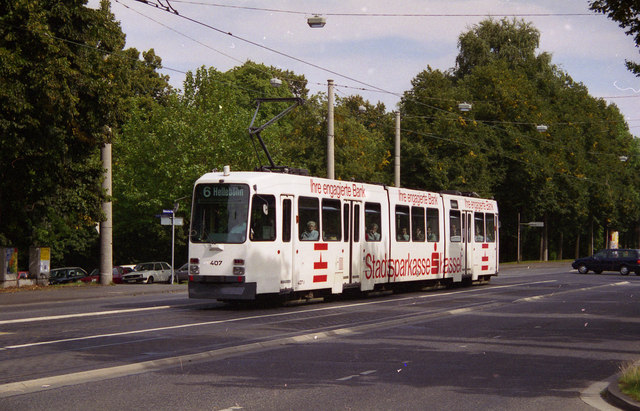 Kassel tramways